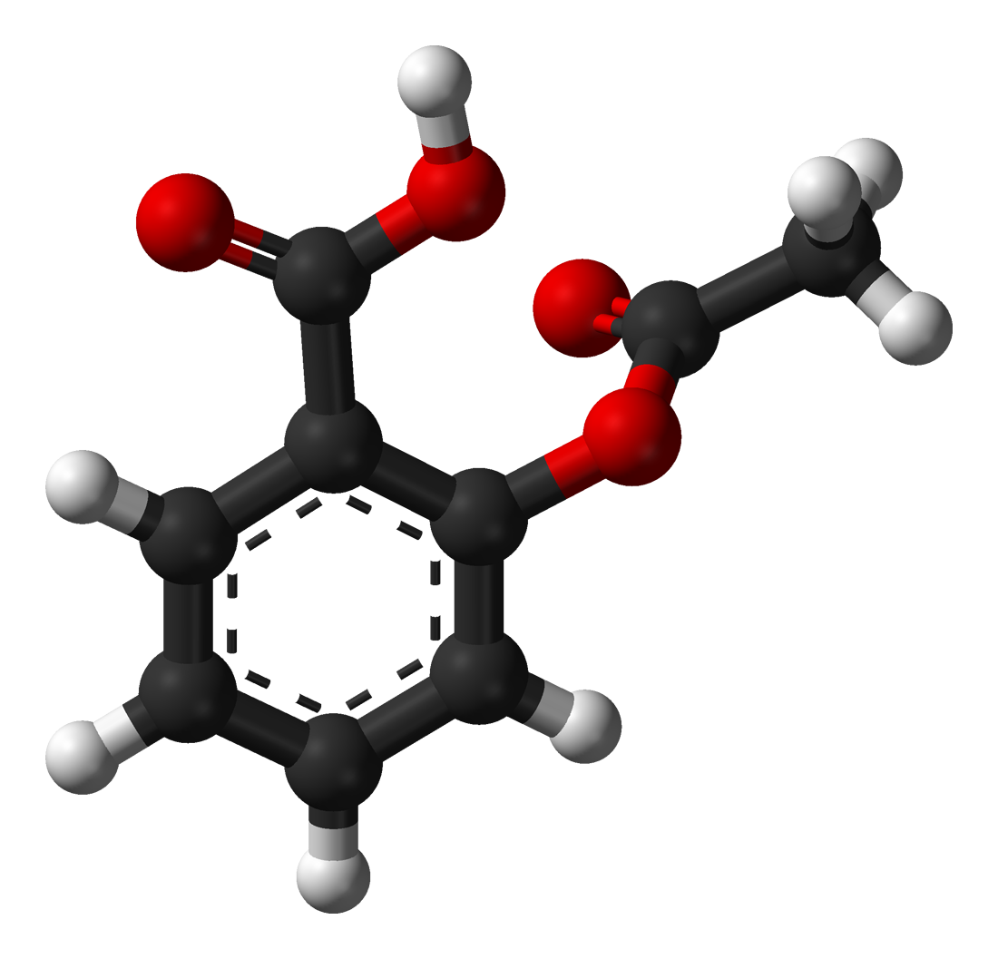 Ball-and-stick model of the aspirin molecule, as found in the solid state. Single-crystal X-ray diffraction data from Kim, Y.; Machida, K.; Taga, T.; Osaki, K. (1985). "Structure Redetermination and Packing Analysis of Aspirin Crystal". Chem. Pharm. Bull. 33 (7): 2641-2647. ISSN 1347-5223.